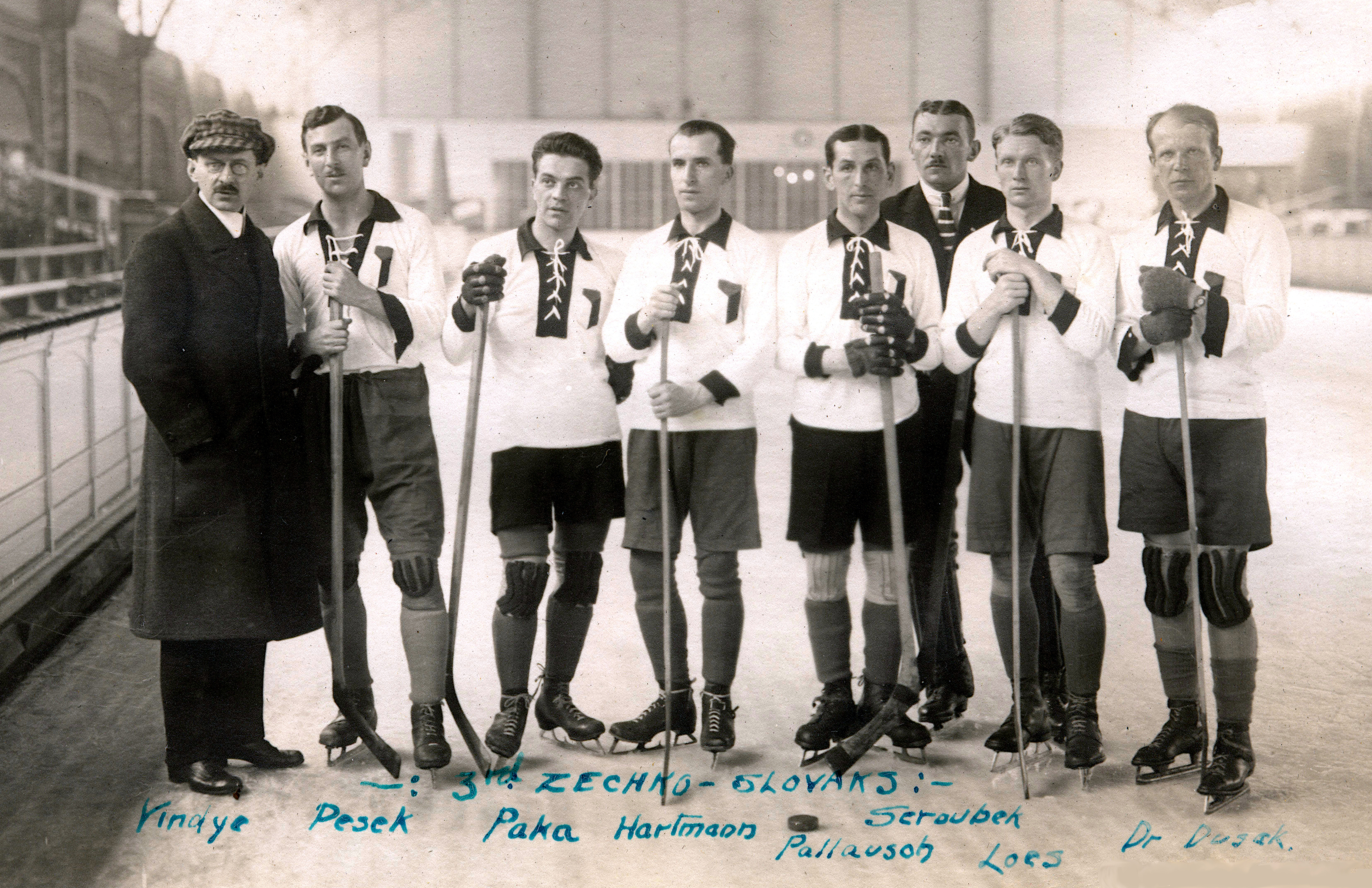 Czechoslovakian Olympic Hockey Team; Bronze Medal Winners; VII Olympiade, Antwerp 1920 (the order of the hand written names is wrong!) Dr. Dusek - Valentin Loos (marked Pesek) - Karel Hartmann - Jan Palous - Josef Sroubek - Jan Peka - Karel Pesek/Kada (marked Loos)-Otakar Vindys